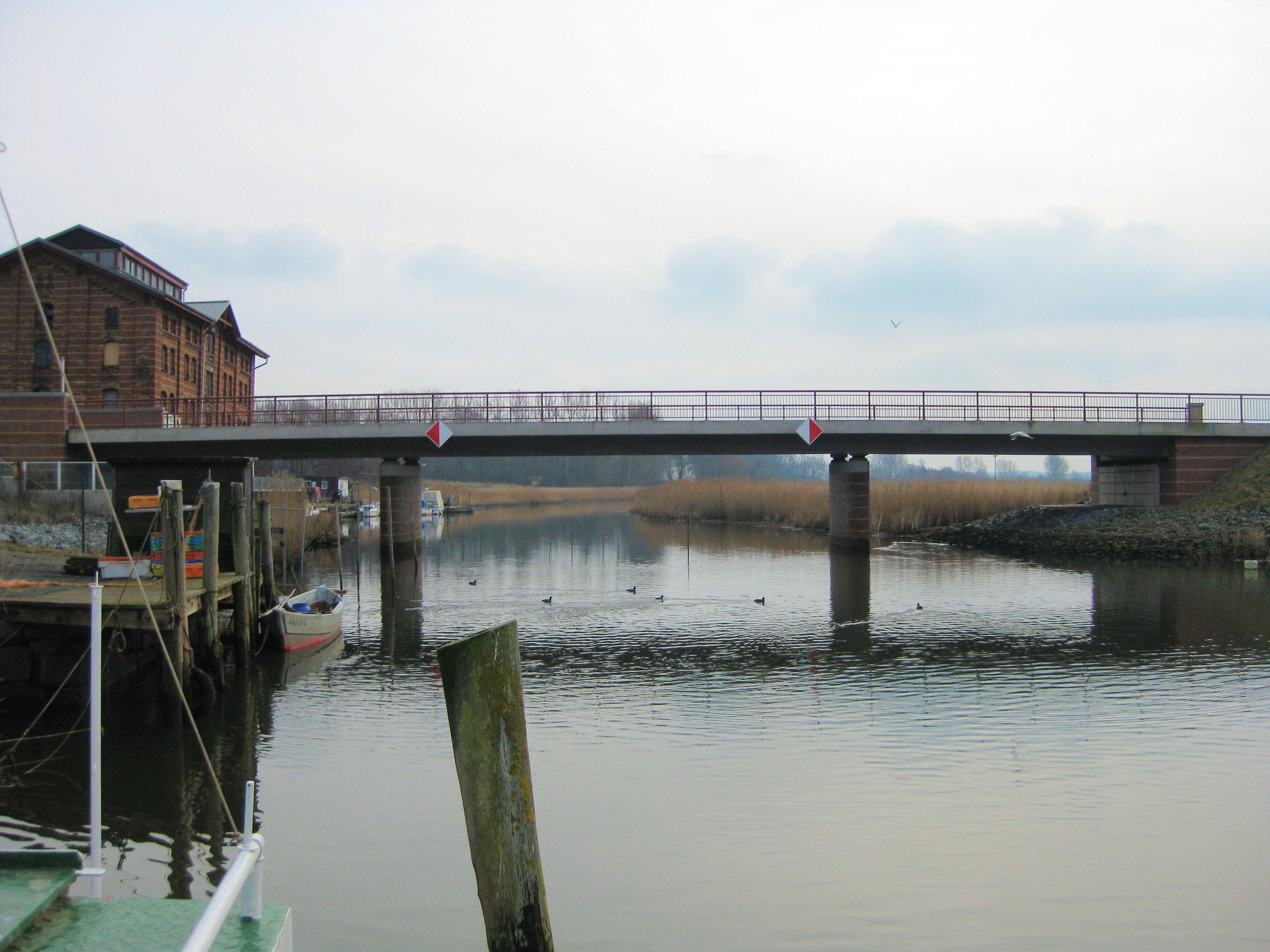 Dassow bridge across river Stepenitz (B 105).